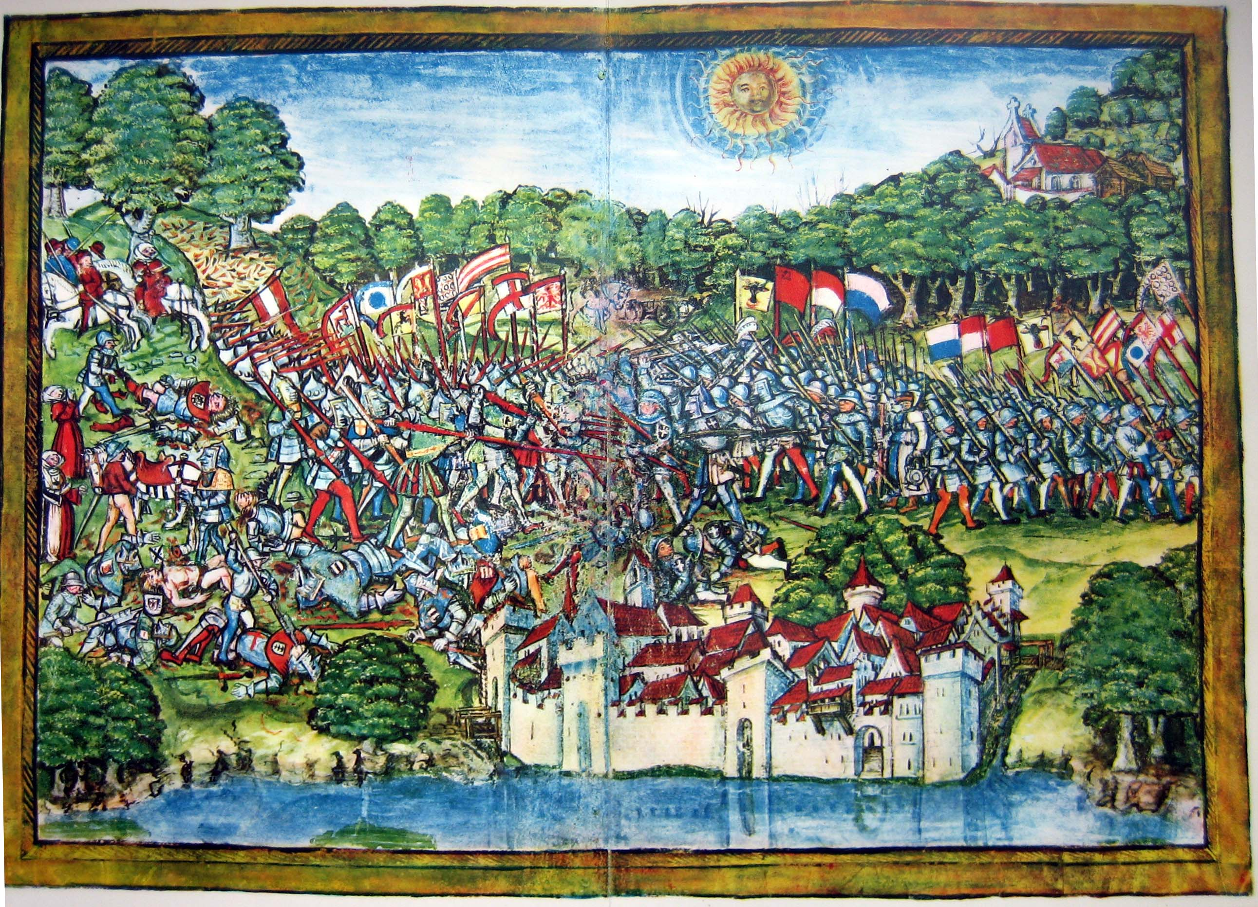 Illustration of the battle of Sempach in the cronicle of Diebold Schilling